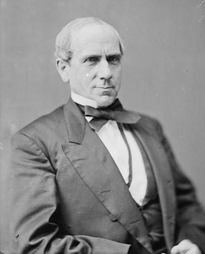 Wright, Hon. Rep. Edwin R.V. of N.J.